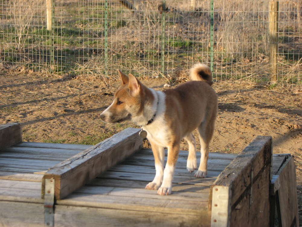 Singer juvenile with wide white collar (New Guinea Singing Dog with a lot of white markings)